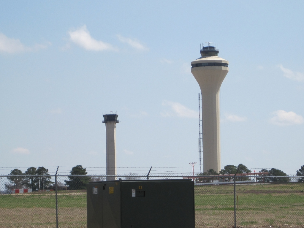 Old (left) and new (right) air traffic control towers at Memphis International Airport (MEM). Photo taken from Airways Boulevard at Winchester.